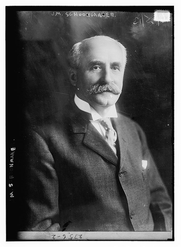 Bain News Service,, publisher. J. M. Schoonmaker [no date recorded on caption card] 1 negative : glass ; 5 x 7 in. or smaller. Notes: Title from unverified data provided by the Bain News Service on the negatives or caption cards. Forms part of: George Grantham Bain Collection (Library of Congress). Format: Glass negatives. Repository: Library of Congress, Prints and Photographs Division, Washington, D.C. 20540 USA, General information about the Bain Collection is available at Persistent URL: Call Number: LC-B2- 2756-2